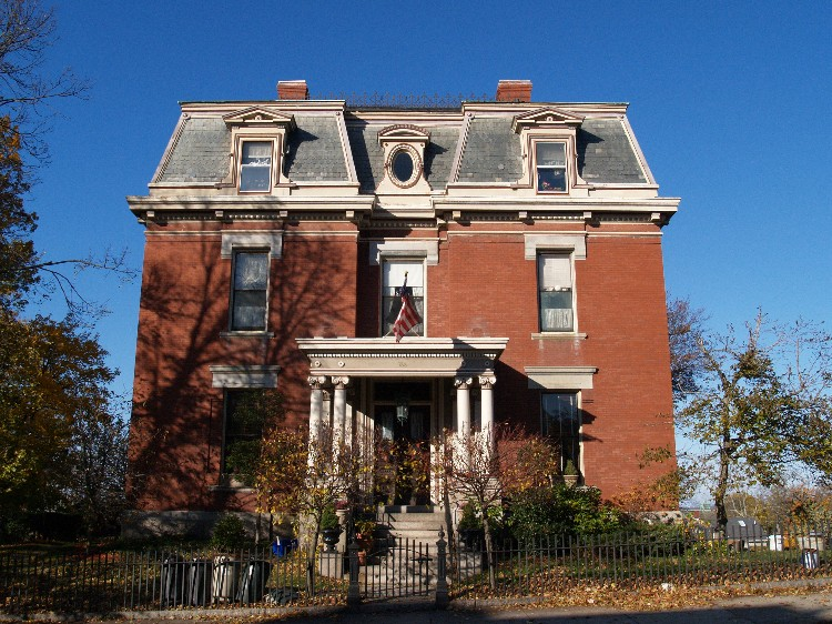 Edmund Chase House, 388 Rock Street, Fall River, Massachusetts (built c.1874) Part of the Highlands Historic District